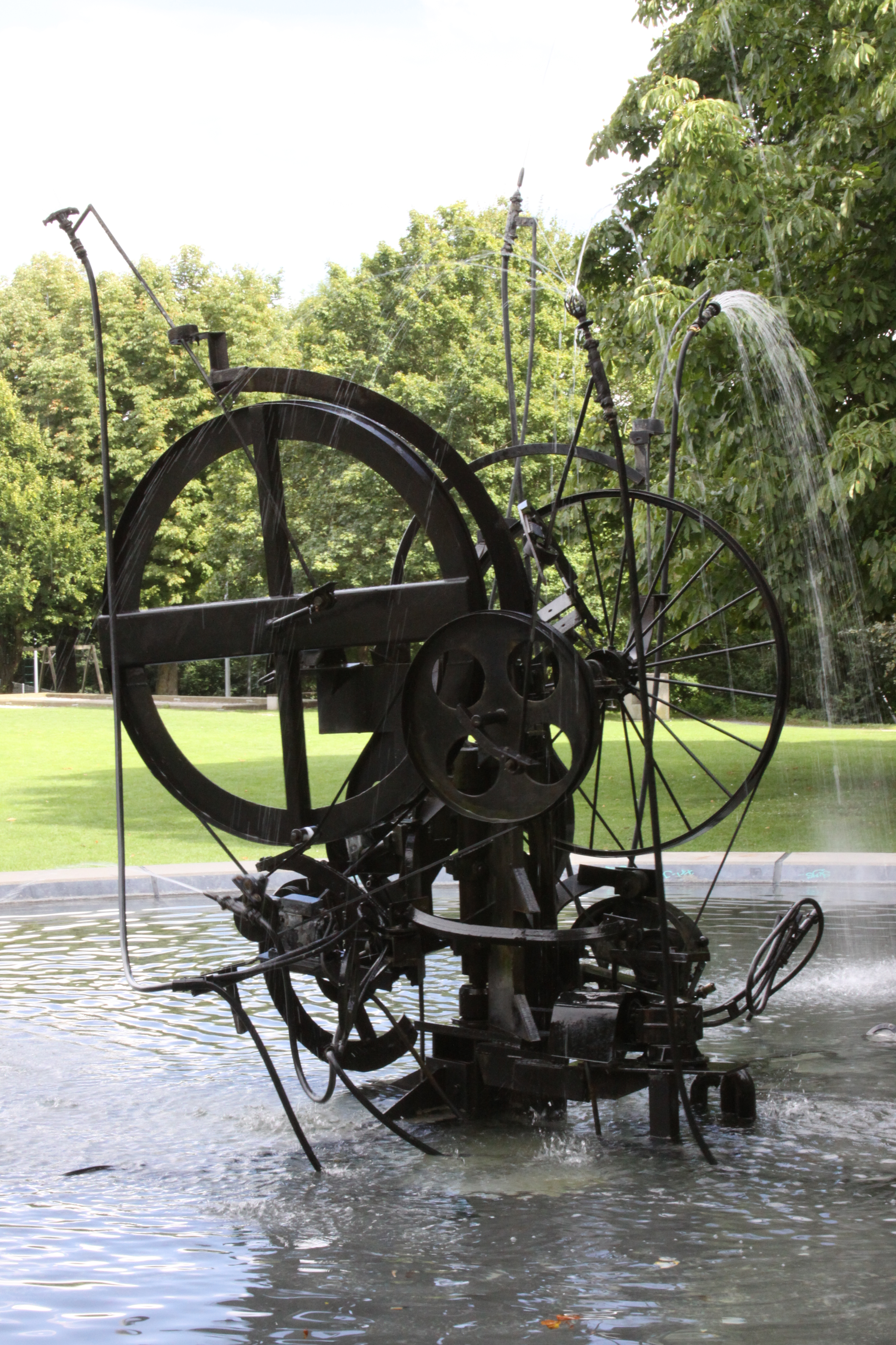 Jo Siffert Fountain, sculpted by Jean Tinguely, Grand-Places, Fribourg